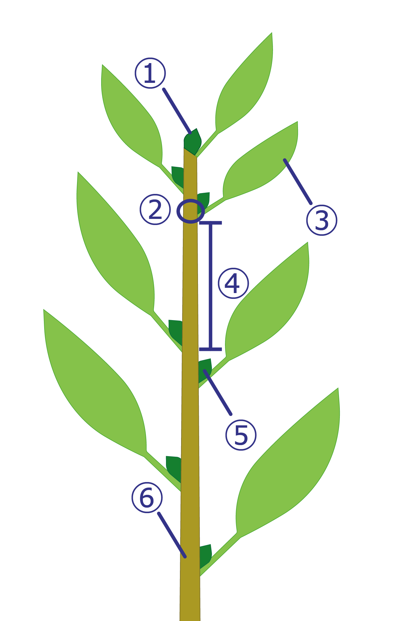 This image is a schematic diagram of the shoot. 1.Terminal bud, 2.Node, 3.Leaf, 4.Internode, 5.Axillary bud, 6.Stem.